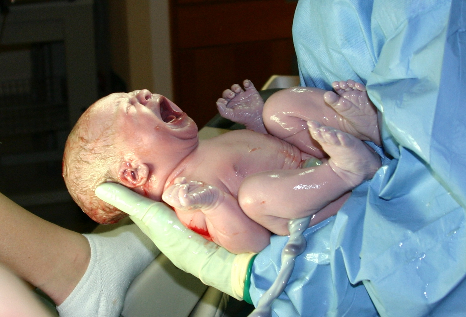 A newborn female human infant glistens from amniotic fluid, seconds after birth, in hospital setting. Her crying demonstrates strong respiration, one of the criteria of the Apgar score used to measure the health of a child at time of birth. The head of an infant human is abnormally large in relation to the rest of the body, necessary to hold our large and developed brain. Visible in the photo is the slight deformity of the head into a "cone" shape, as a result of vaginal delivery, or childbirth. The umbilical cord has not yet been cut and still extends into the mother's body, where it connects to the placenta. The baby is the photographer's daughter.